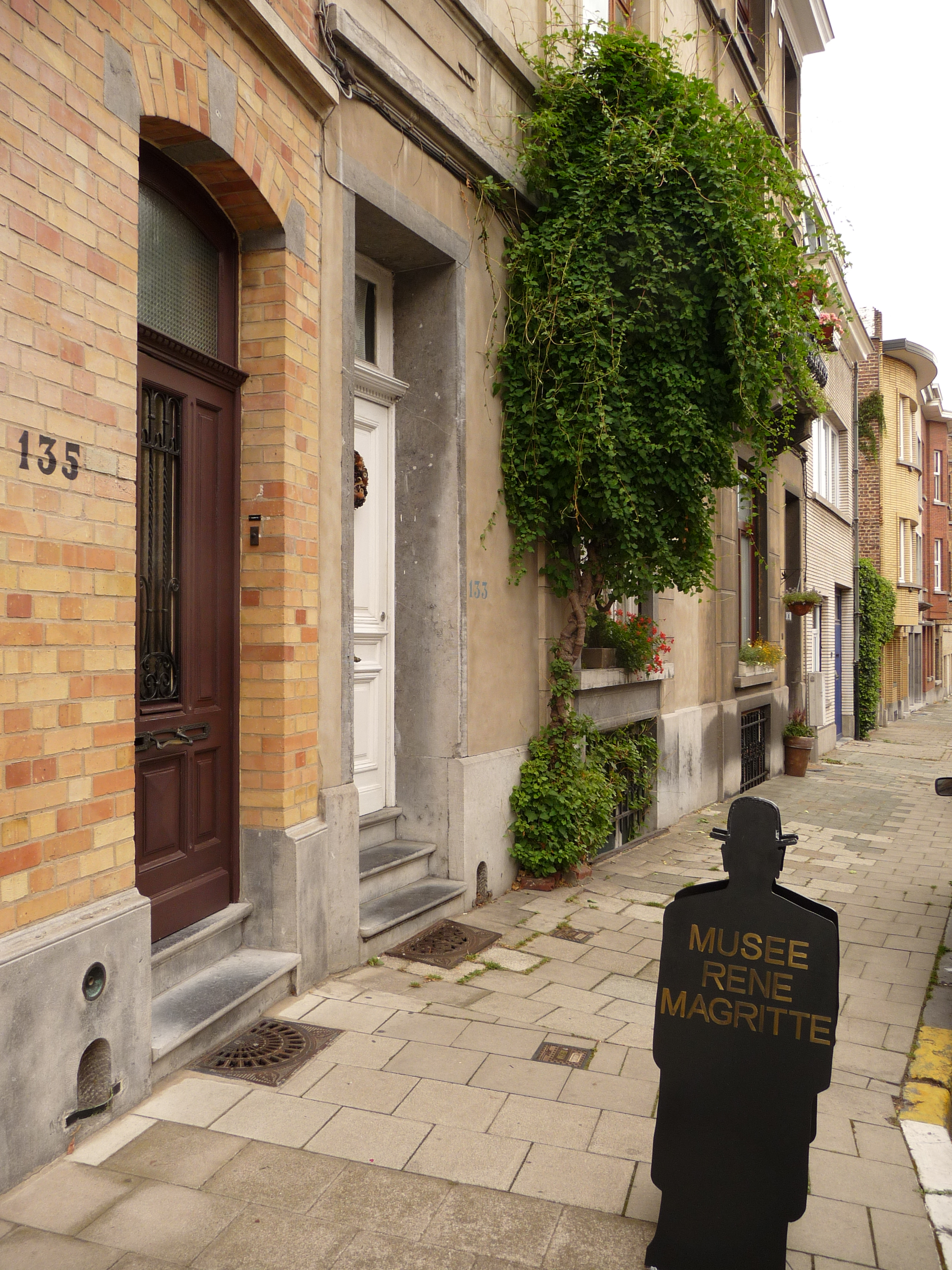 Musée Magritte, Bruxelles